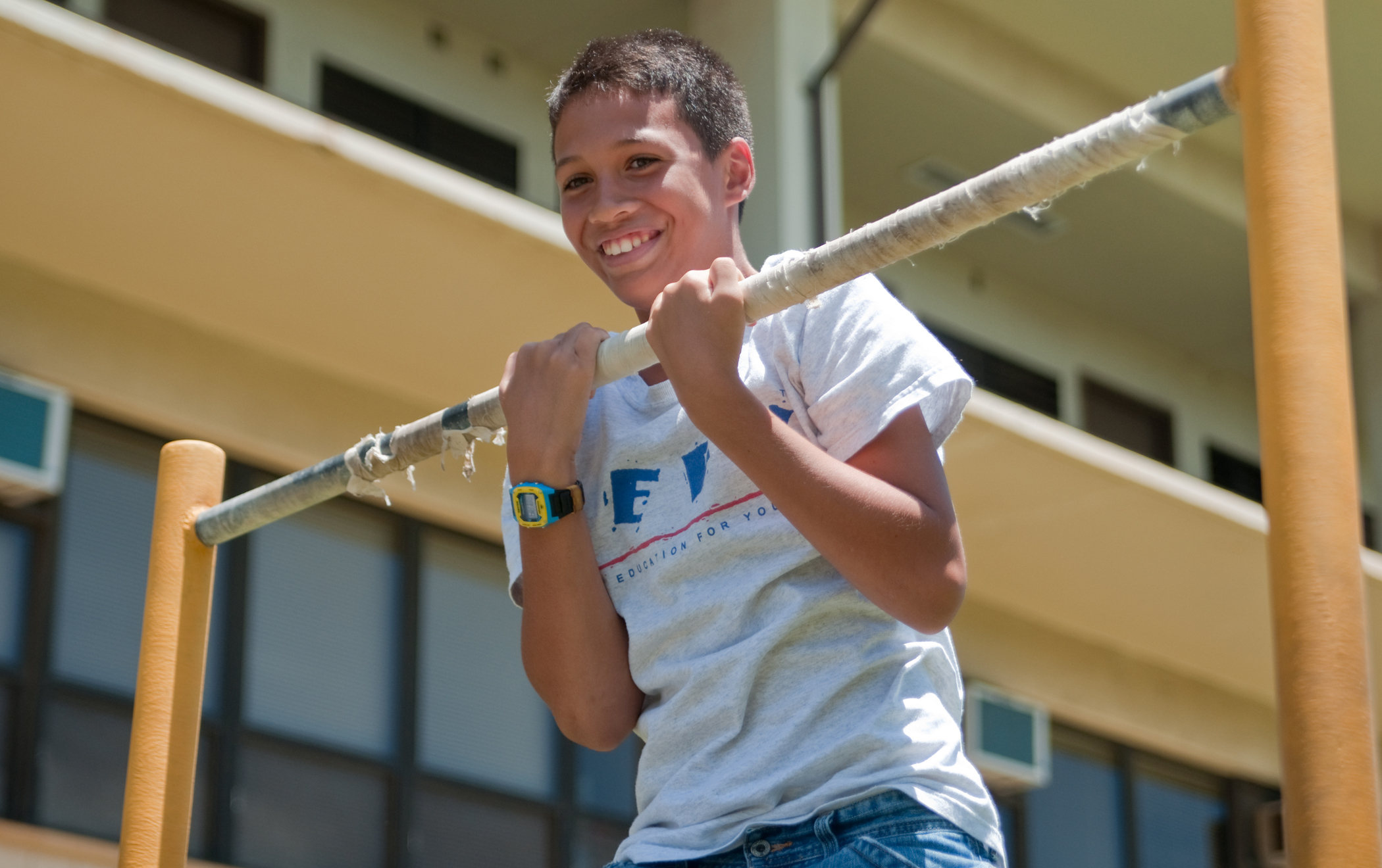 Kona Hinojosa, 11, of Waimanalo, does pull-ups during the “President’s Challenge” portion of the Drug Education for Youth program on base. The program includes physical activities, hands-on activities, excursions and classroom time. Unit: Marine Corps Base Hawaii – Kaneohe Bay DVIDS Tags: Marine Corps Base Hawaii; Drug Education for Youth